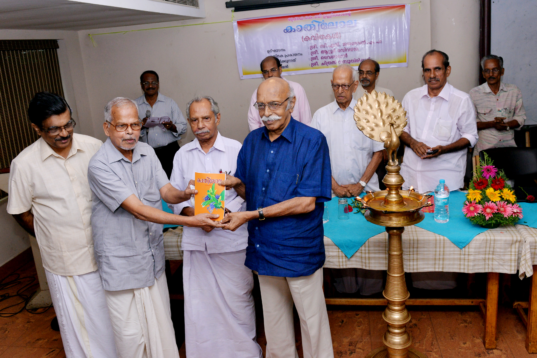 This is a photo of Book releasing ceremony of Kathilola. Malayalam poet Attoor Ravi Varma releases the book giving to Vaisakhan, a Malayalam story writer